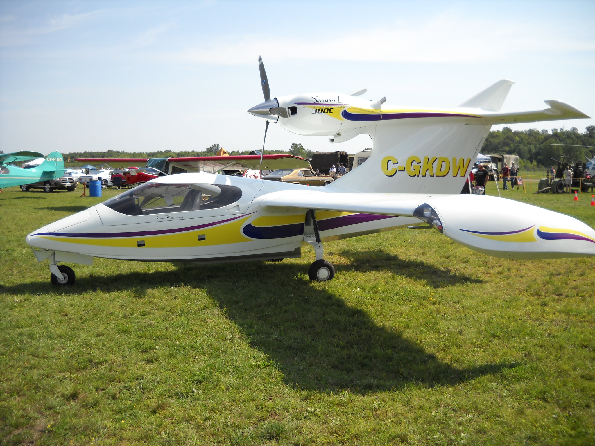 A Seawind 3000 amateur-built carrying the markings of a Seawind 300C certified aircraft, seen at the Classic Air Rallye, Ottawa/Rockcliffe Airport, Ottawa, Ontario, Canada.